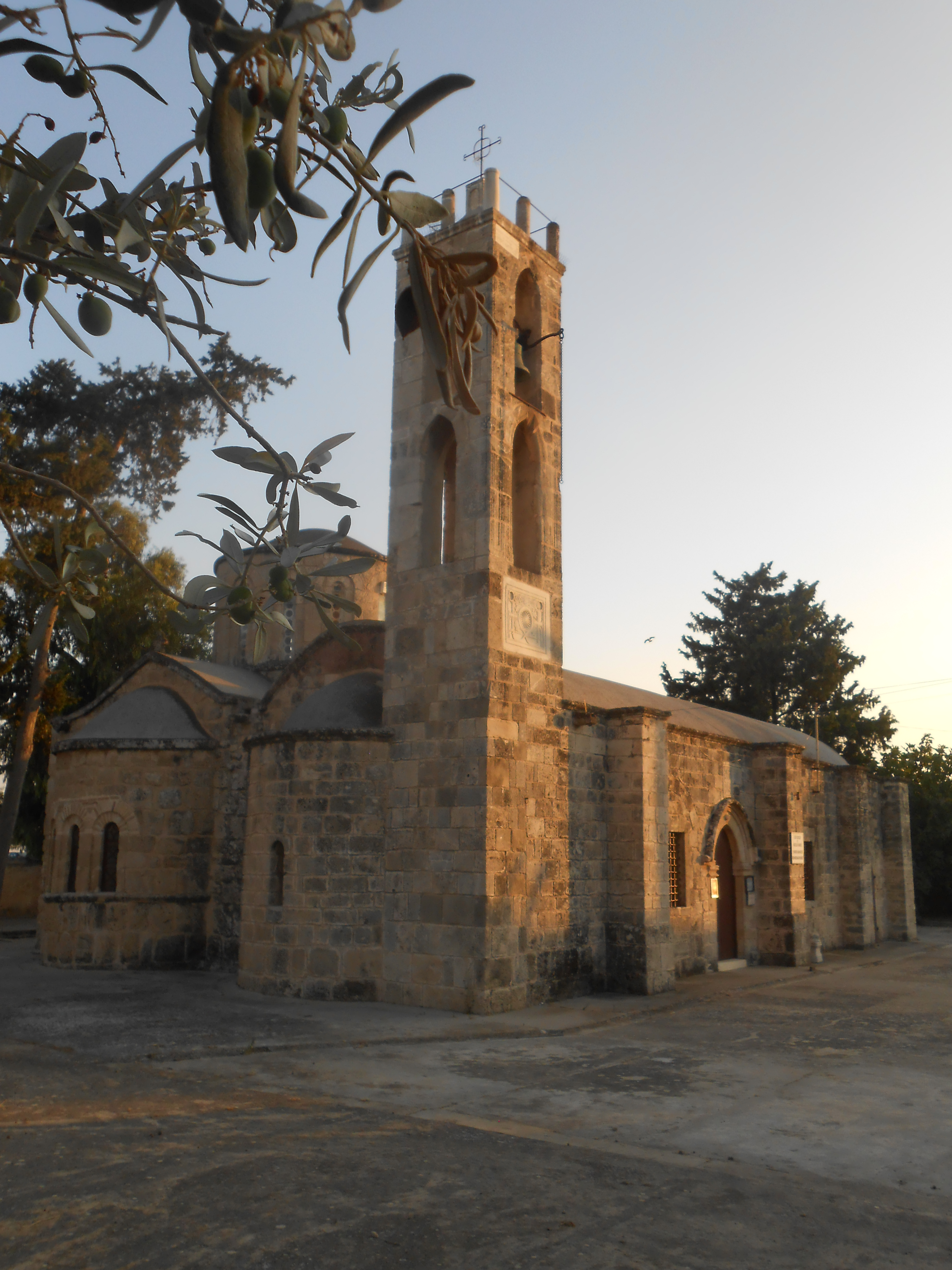 Church of Blessed Virgin Mary in Trikomo (Iskele) 12th century. The church is used as a museum these days.